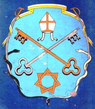 Universal Christian Gnostic Church